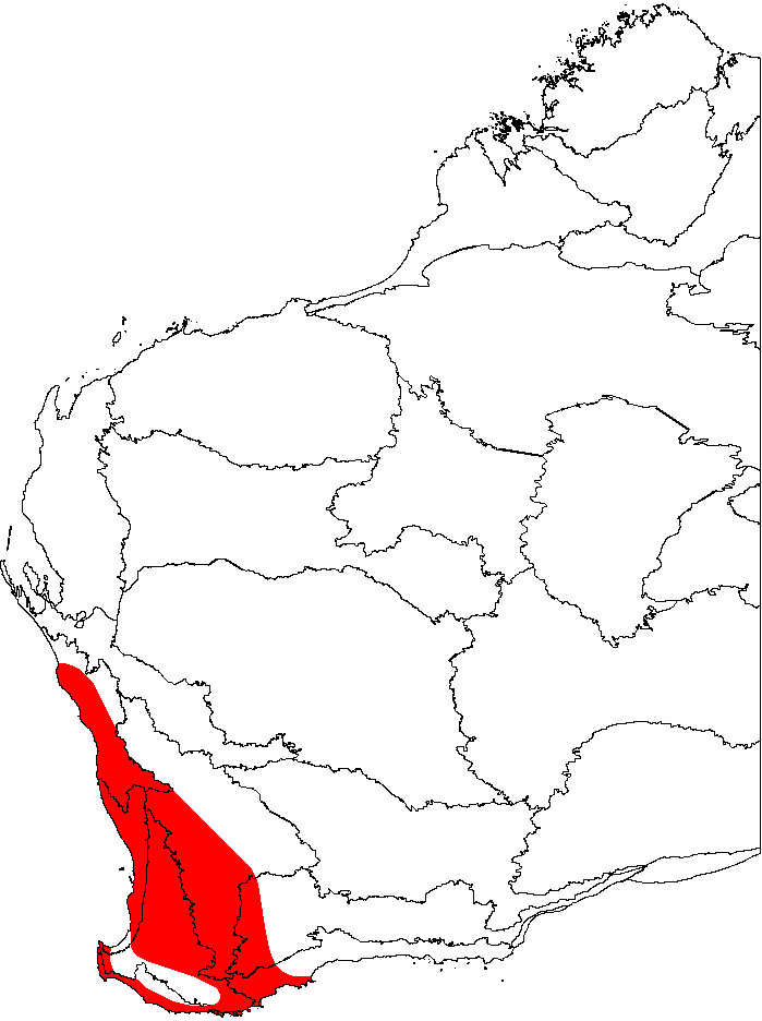 This is a map of Western Australia, showing the distribution of Banksia sessilis (Parrotbush) superimposed on a background of the IBRA 6.1 biogeographic regions.